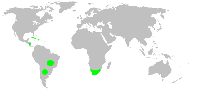 Drymusidae habitat distribution, drawn after Platnick: World Spider Catalog 7.0. This is not a precise rendering of the distribution! If you have better information, please replace this map, or send me the info, and i will redraw it.